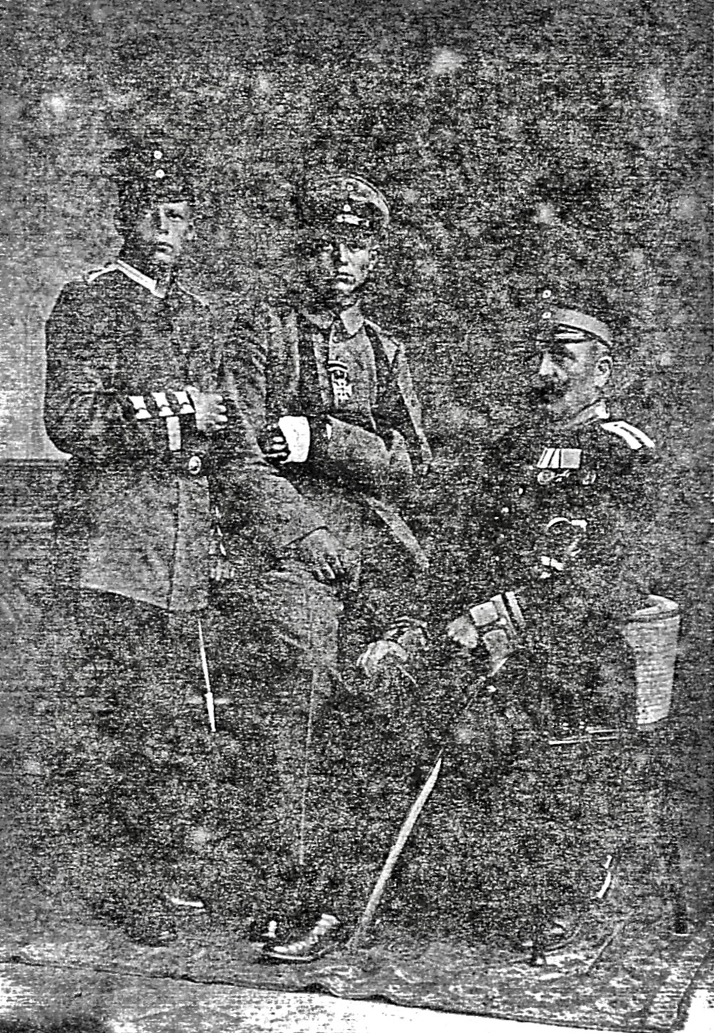 Erich Dieckmann (1896–1944), center, after his severe wounding during WWI in Western Flanders (Belgium) where he was hurt by a Canadian explosive device near Ypres. Sitting next to him is his father Hermann († 1923), the young man standing on Erich's right is one of his two older brothers. The other one was at the Western front during the time of this picture and later got killed in action.